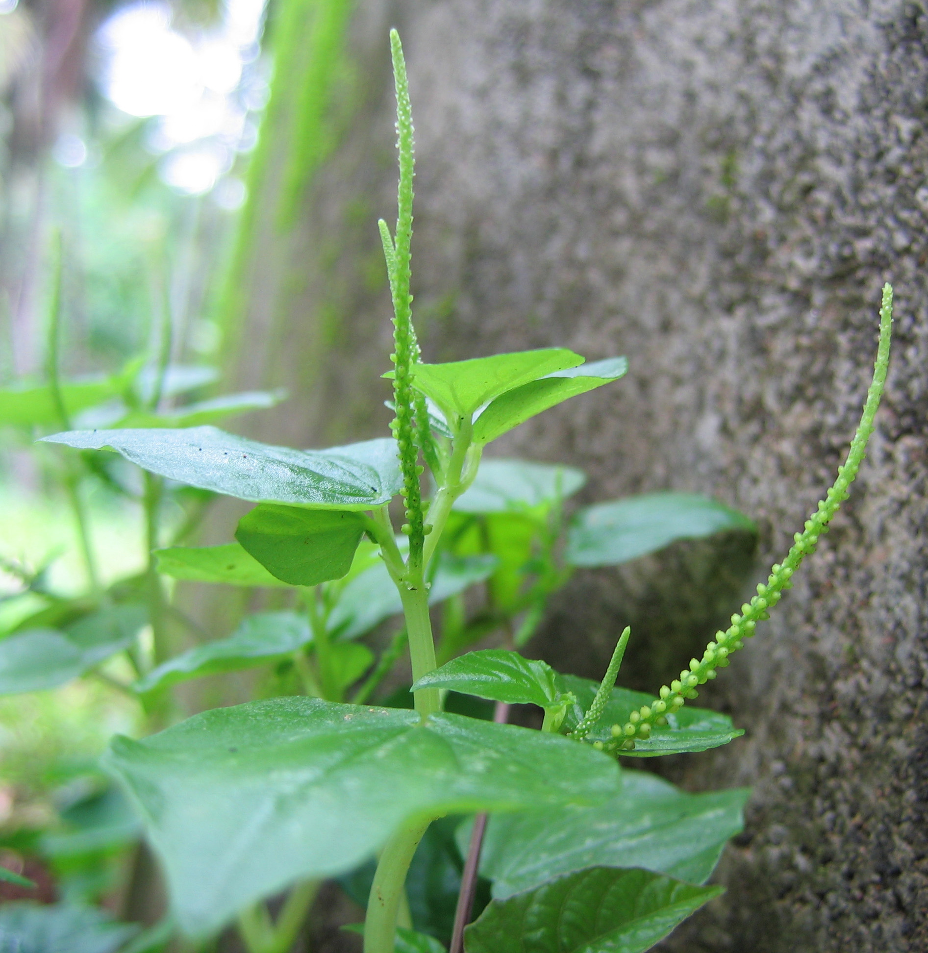 Peperomia pellucida